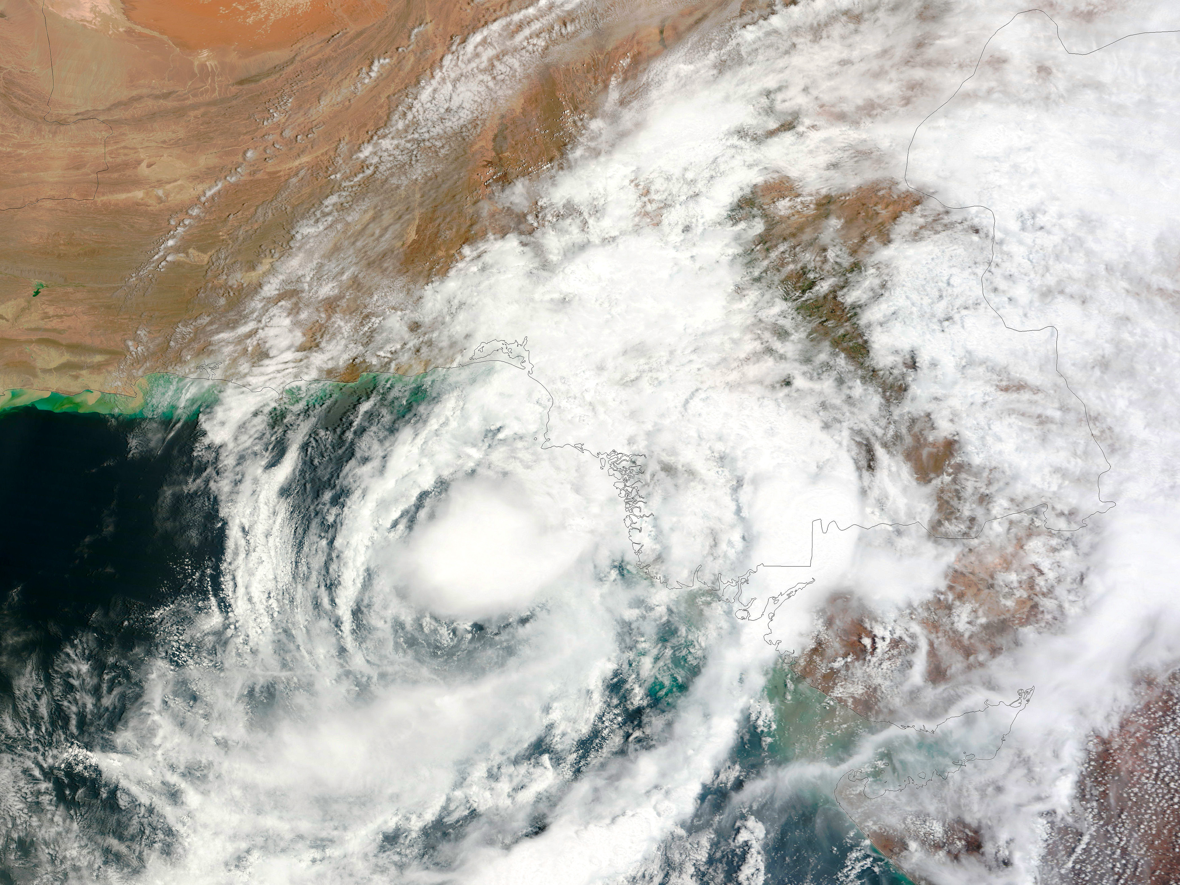 As predicted, after making landfall over Oman, Tropical Cyclone Phet took a right turn and headed eastward over the Arabian Sea, making a second landfall in Pakistan. Phet finally weakened on June 6, 2010, after raging along Pakistan’s coast. By the time the storm wound down, it had killed four people in Pakistan and 15 people in Oman, Agence France-Prese reported. The Moderate Resolution Imaging Spectroradiometer (MODIS) on NASA’s Terra satellite captured this natural-color image on June 6, 2010. Phet lacks a discernible eye in this image, but retains it central core and spiral arms, which stretch from the Arabian Sea to Pakistan’s interior.